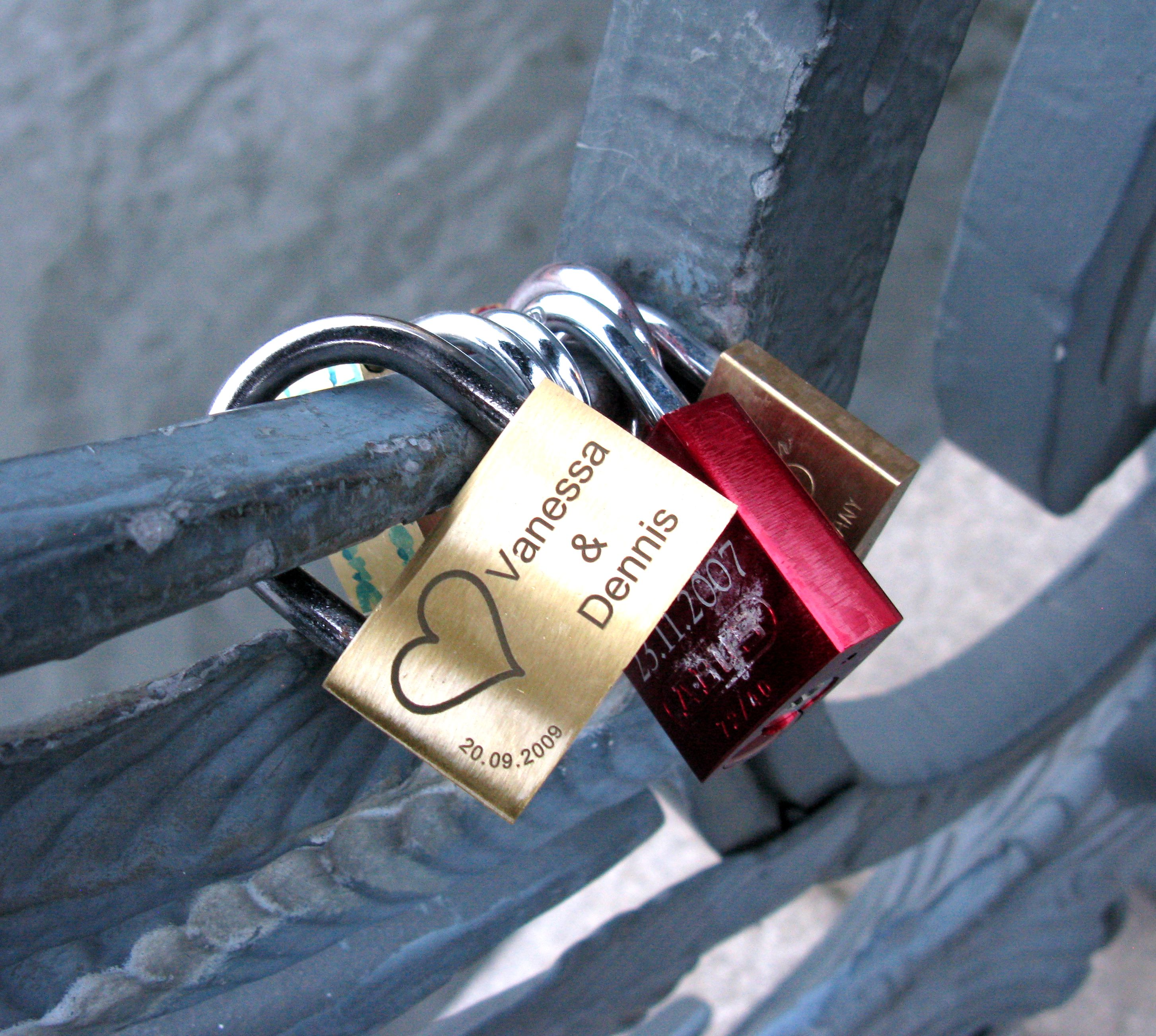 Padlocks engraved with the names of lovers, locked onto the wrought-iron railings of the Weidendammer bridge across the river Spree in Berlin